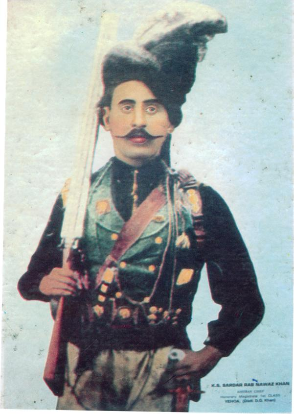 Sardar Rab Nawaz Khan Khetran. Chief(Tumandar) of Khetran tribe, in Vehoa, Tehsil Taunsa Shareef, District Dera Ghazi Khan, Pakistan. His titles included Rais-e-Azam of Vehoa, Member Imperial Baloch Jirga and Honorary Magistrate 1st class of Vehoa. He was the only son of Sardar Allah Dad Khan Tumandar. Sardar Rab Nawaz Khan Tumandar died on April 17 1970 and his grave is located in Vehoa. Sardar Rab Nawaz Khan Grave in Vehoa